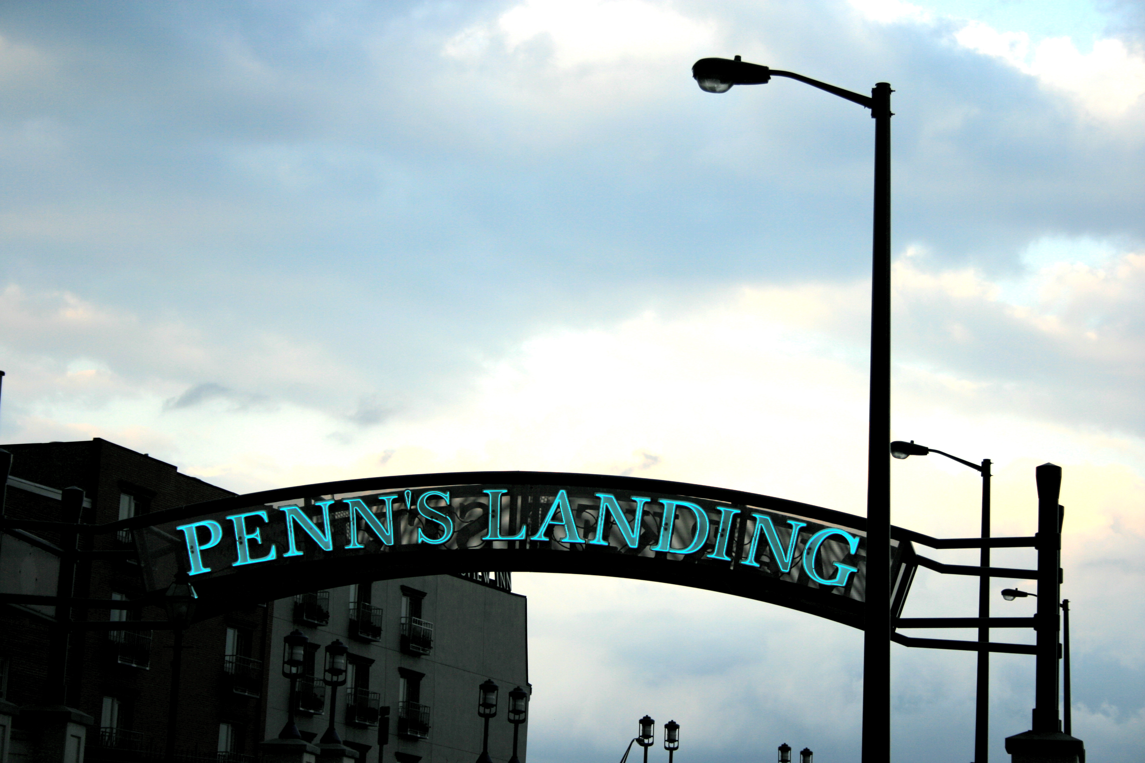 The gateway to Penn's Landing.